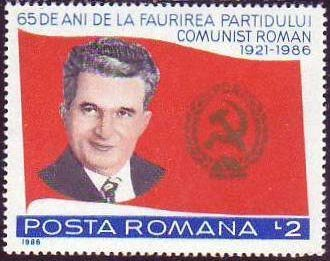 Nicolae Ceausescu